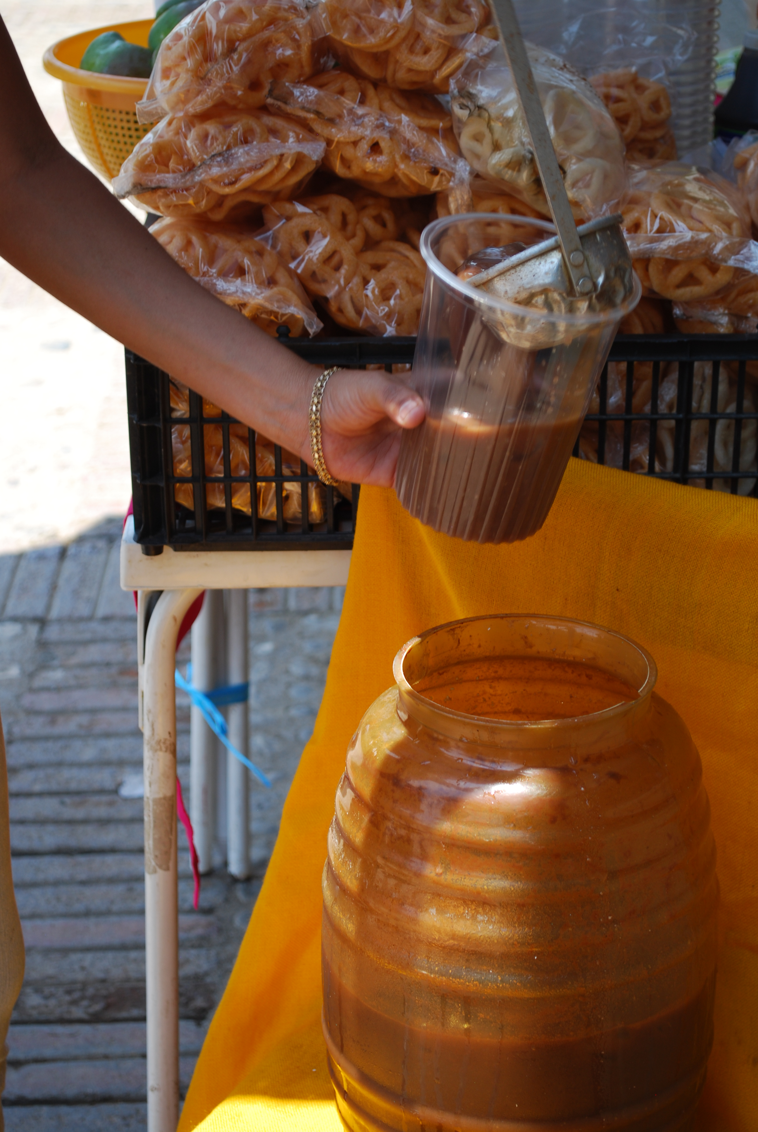 Close up of pozol being served in Chiapa de Corzo, Chiapas, Mexico of a offhand seller